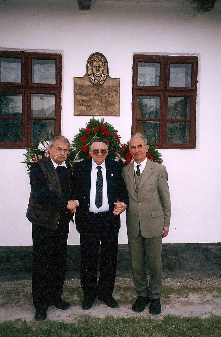 Inauguration of the plaque of Moyses Márton